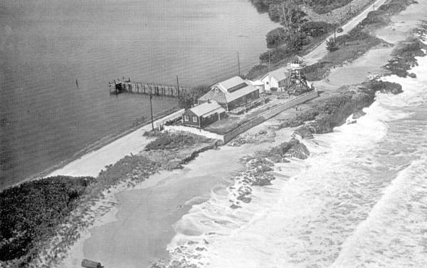 Local call number: RC08706 Title: Aerial view of Gilbert's Bar House of Refuge: Stuart, Florida Date: ca. 1960 General note: Located north of Bathtub Beach on Hutchinson Island east of Stuart. Prior to 1915, the United States Life-Saving Service operated a series of refuge houses on Florida's East coast to rescue survivors from the coast's numerous shipwrecks. The Gilbert's Bar House of Refuge was opened in 1876 on a piece of land called Gilbert's Bar two miles north of St. Lucie Inlet and operated by the US Life-Saving Service from 1876-1915. From 1915-1941, the U.S. Coast Guard operated the station, while the U.S. Navy operated it from 1941 through 1945 when it closed. In 1952, the property was transferred to the Dept. of Interior and by 1955 was the last standing house of refuge. It then became a public museum. In 1973, it was listed on the National Register of Historic Places. Physical descrip: 1 photoprint - b&w - 8 x 10 in. Series Title: Reference Collection Repository: State Library and Archives of Florida , 500 S. Bronough St., Tallahassee, FL 32399-0250 USA. Contact: 850.245.6700. Persistent URL